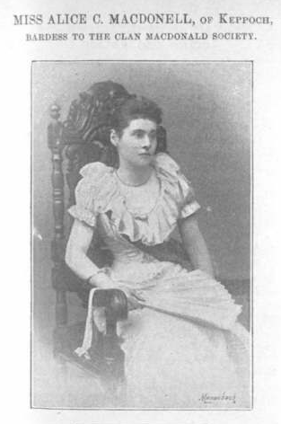 Low resolution photograph of a lady with a caption above "MISS ALICE C. MACDONELL, OF KEPPOCH, BARDESS TO THE CLAN MACDONALD SOCIETY."